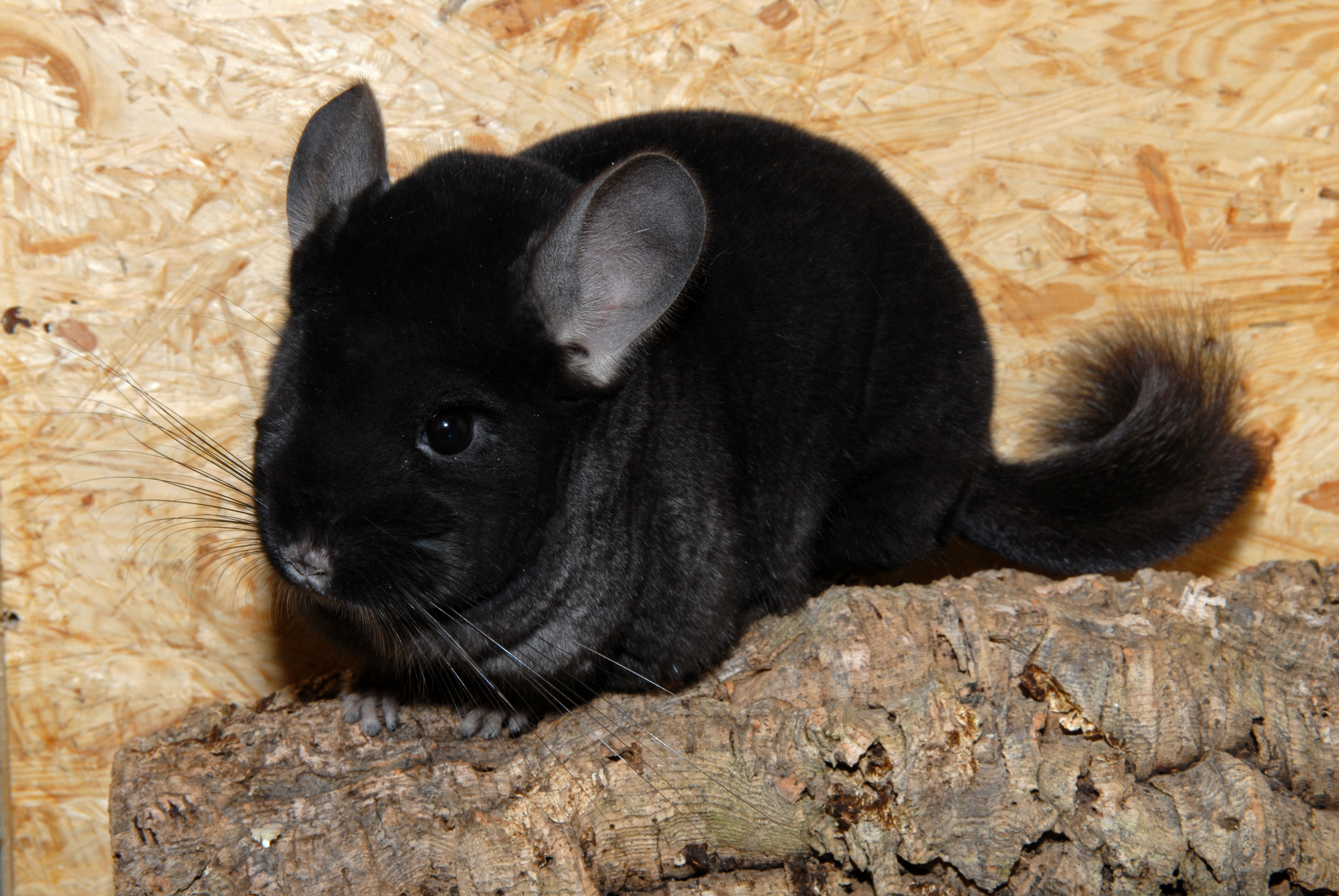 A mutant chinchilla with ebony velvet fur.